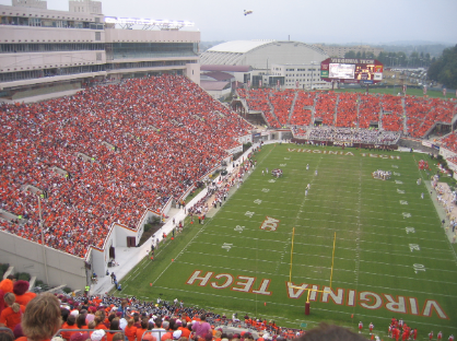 Photo of Lane Stadium from the South endzone during Virginia Tech's 2004 game against NC State.